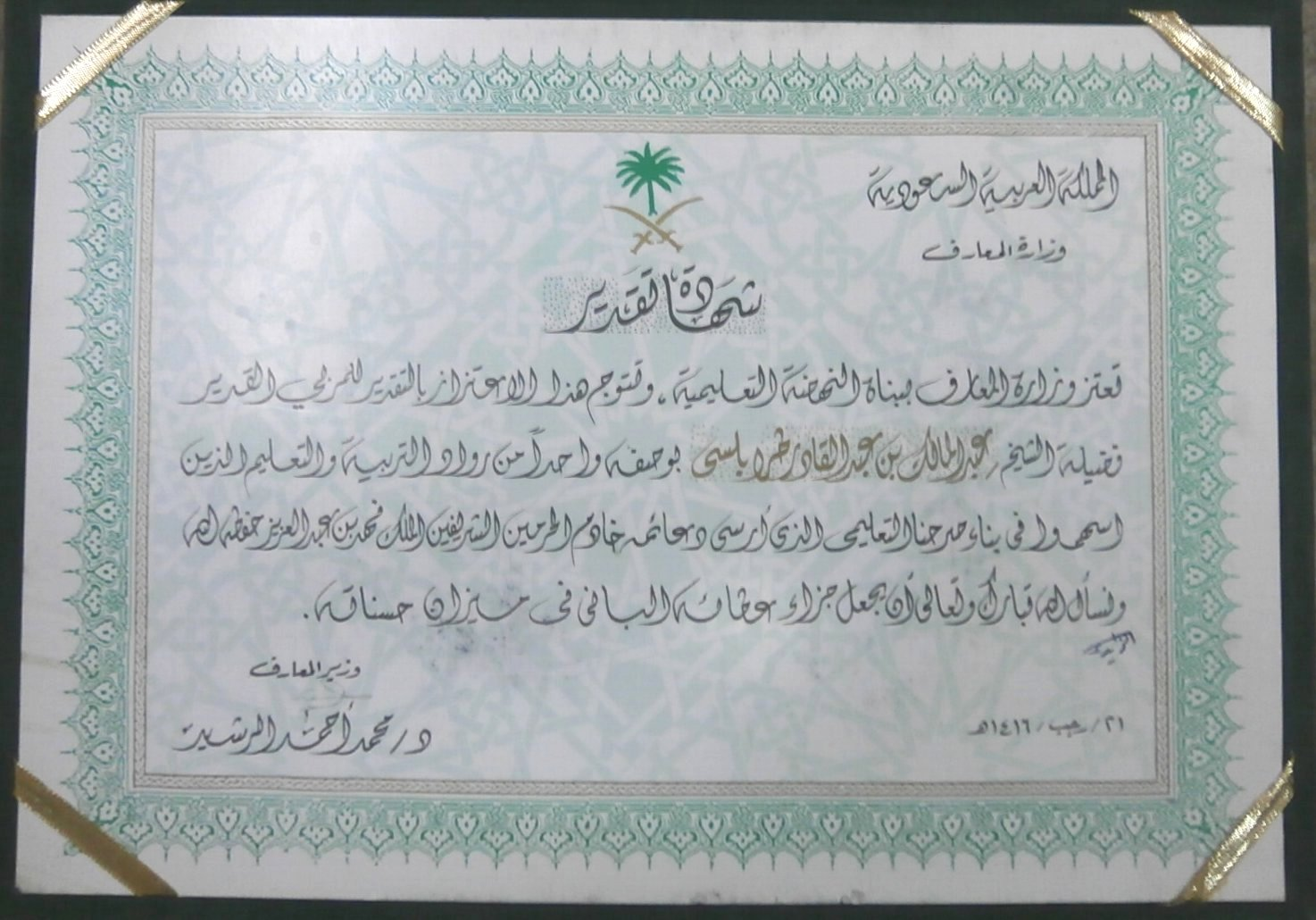 Tribute from Saudi Ministry of Education to Abdelmalik Benali Dec 1995